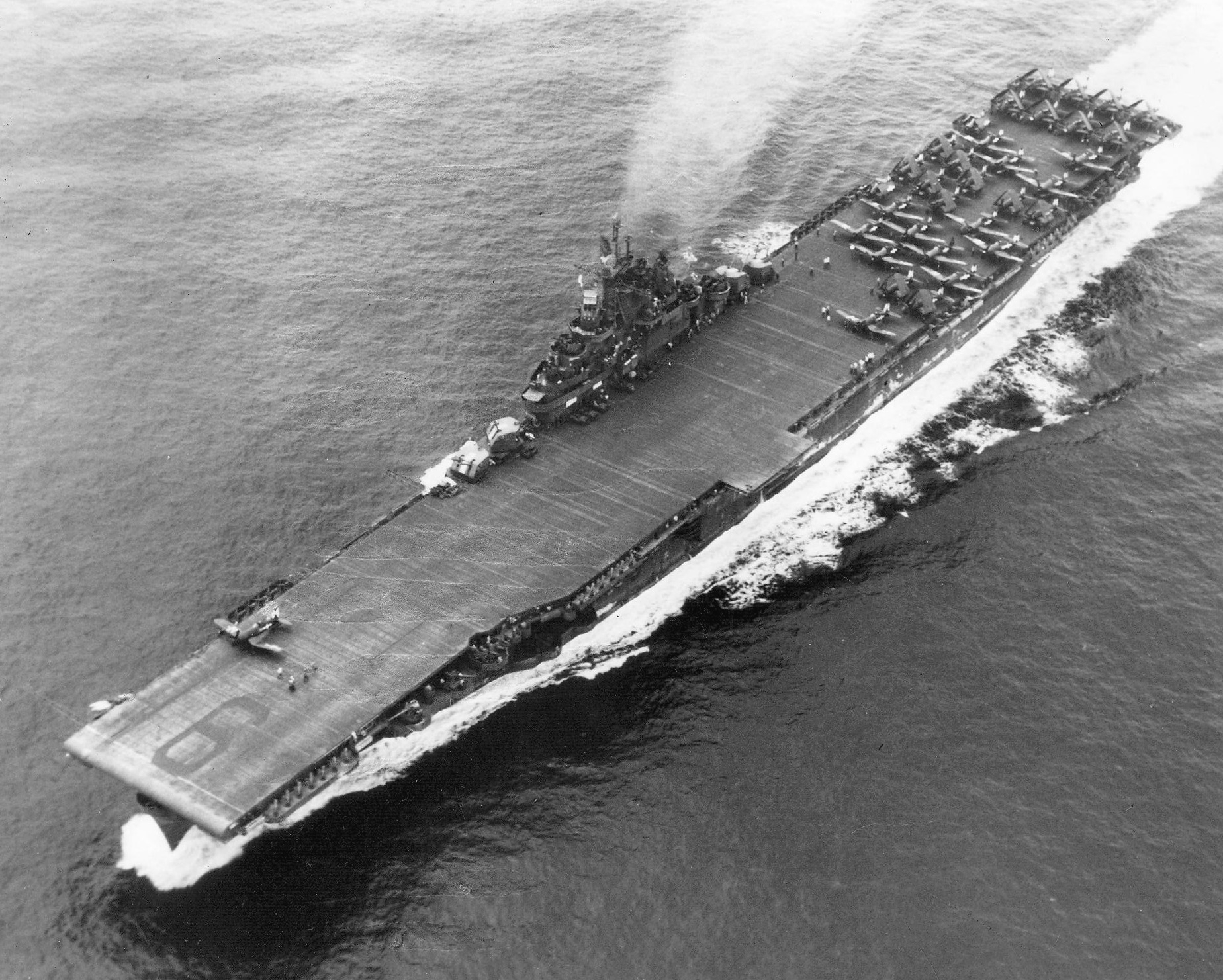 The U.S. navy aircraft carrier USS Essex (CV-9) underway at sea during the Okinawa Campaign, 20 May 1945. Note that her Carrier Air Group 83 (CVG-83) contains both Vought F4U-1 Corsair and Grumman F6F-5 Hellcat fighters of VBF-83 and VF-83.